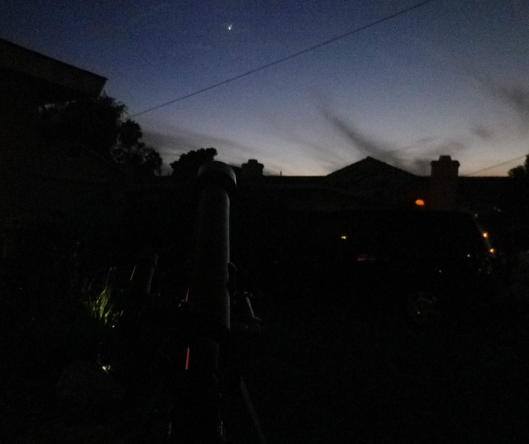 June 30, 2015 - Venus and Jupiter come close together in a planetary conjunction; they came approximately 1/3 a degree apart. In this picture's foreground stands a Celestron Powerseeker 60AZ telescope. The conjunction had been nicknamed the "Star of Bethlehem." The picture was taken with a Pentax Optio RZ10 camera.